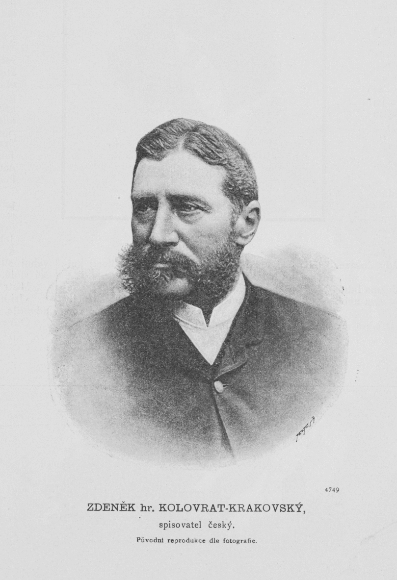 Portrait of Zdeněk Kolovrat-Krakovský (1836-1892), Czech nobleman, historian and playwright